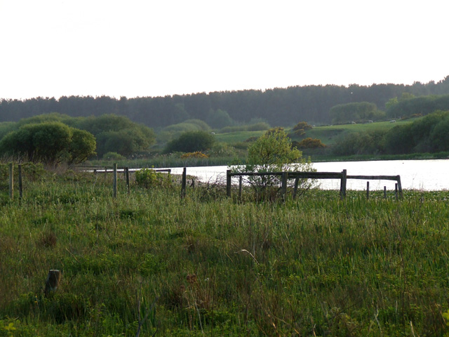 View of Llyn Rhos-Ddu. Llyn Rhos Ddu is a shallow freshwater lake, the lake was created by water running off the neighbouring high ground and being dammed by the sand dunes. The lakes edges have gradually dried out thus reducing its area and leaving wetland surrounding it. These habitats are important to wildfowl, wading birds and plants